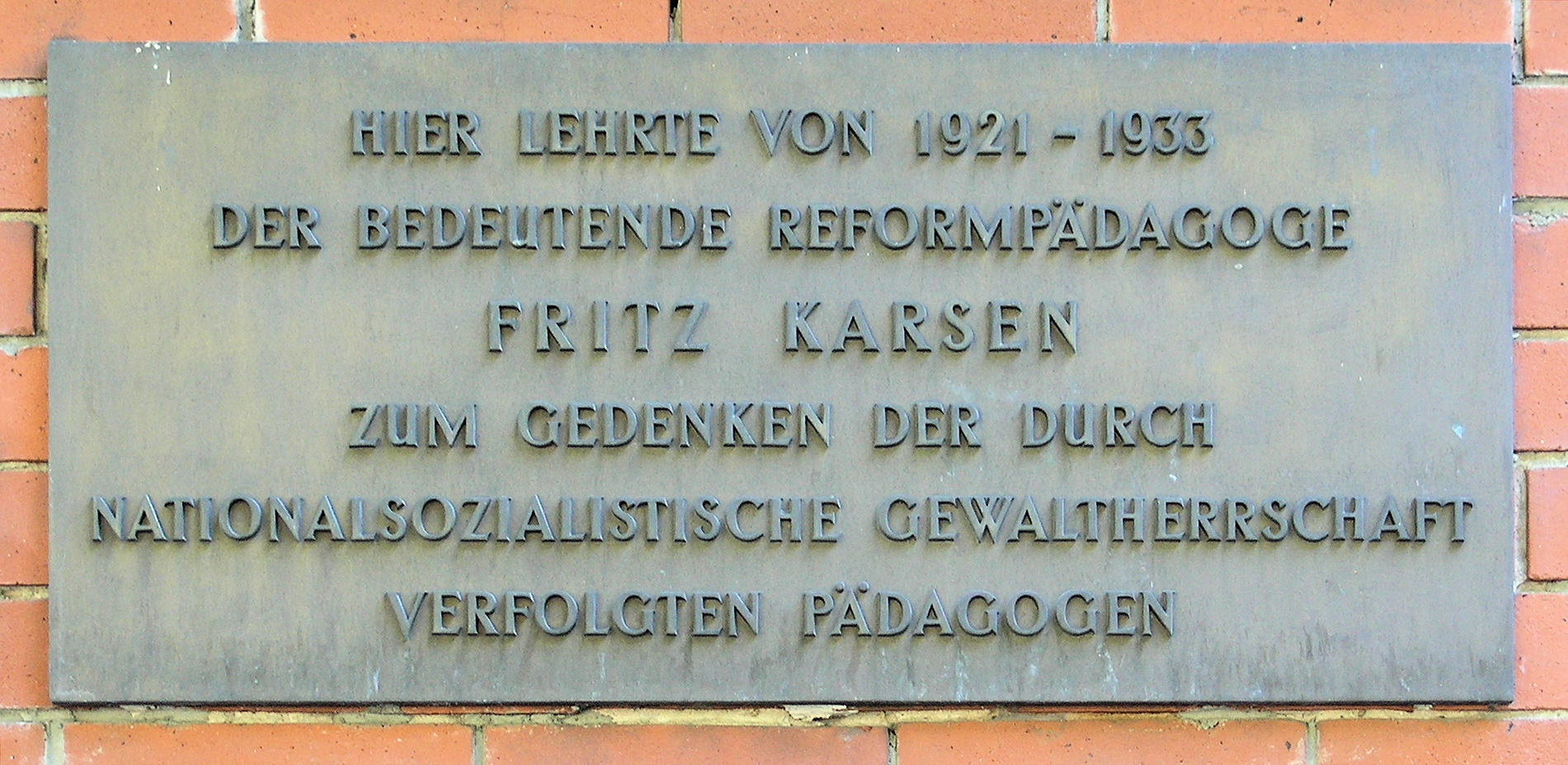 Memorial plaque, Fritz Karsen, Sonnenallee 79, Berlin-Neukölln, Germany Koordinate:52°29′0″N 13°26′13″E / 52.483333°N 13.43694°E